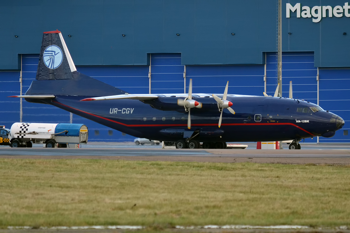 Ukraine Air Alliance, UR-CGV, Antonov An-12BK